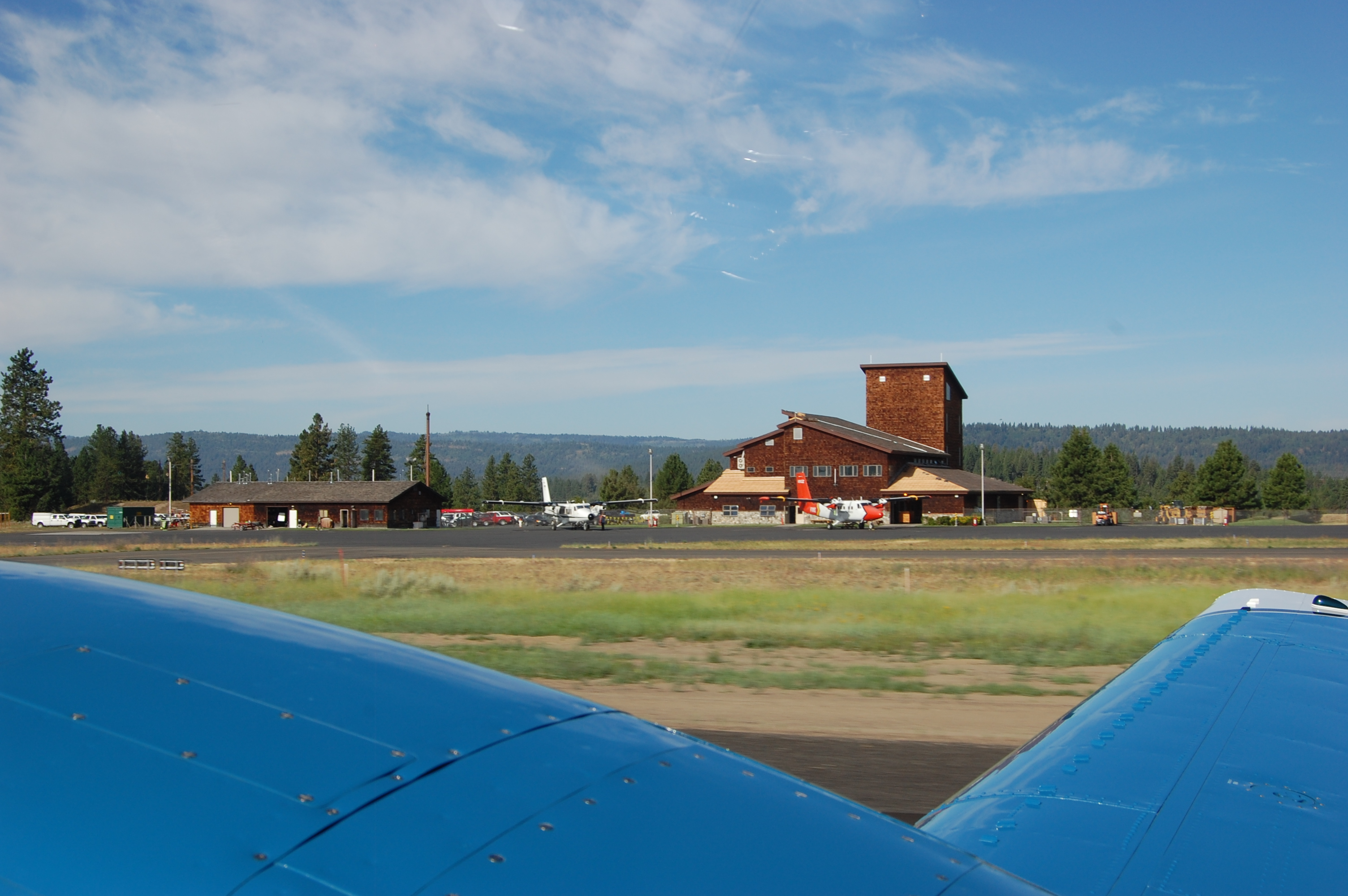 The McCall aerial firefighting apparatus